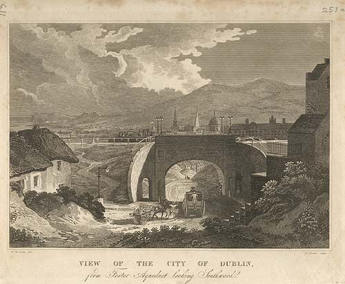 Copperplate image depciting the view south from Foster Aqueduct in Braodstone, Dublin, Ireland.